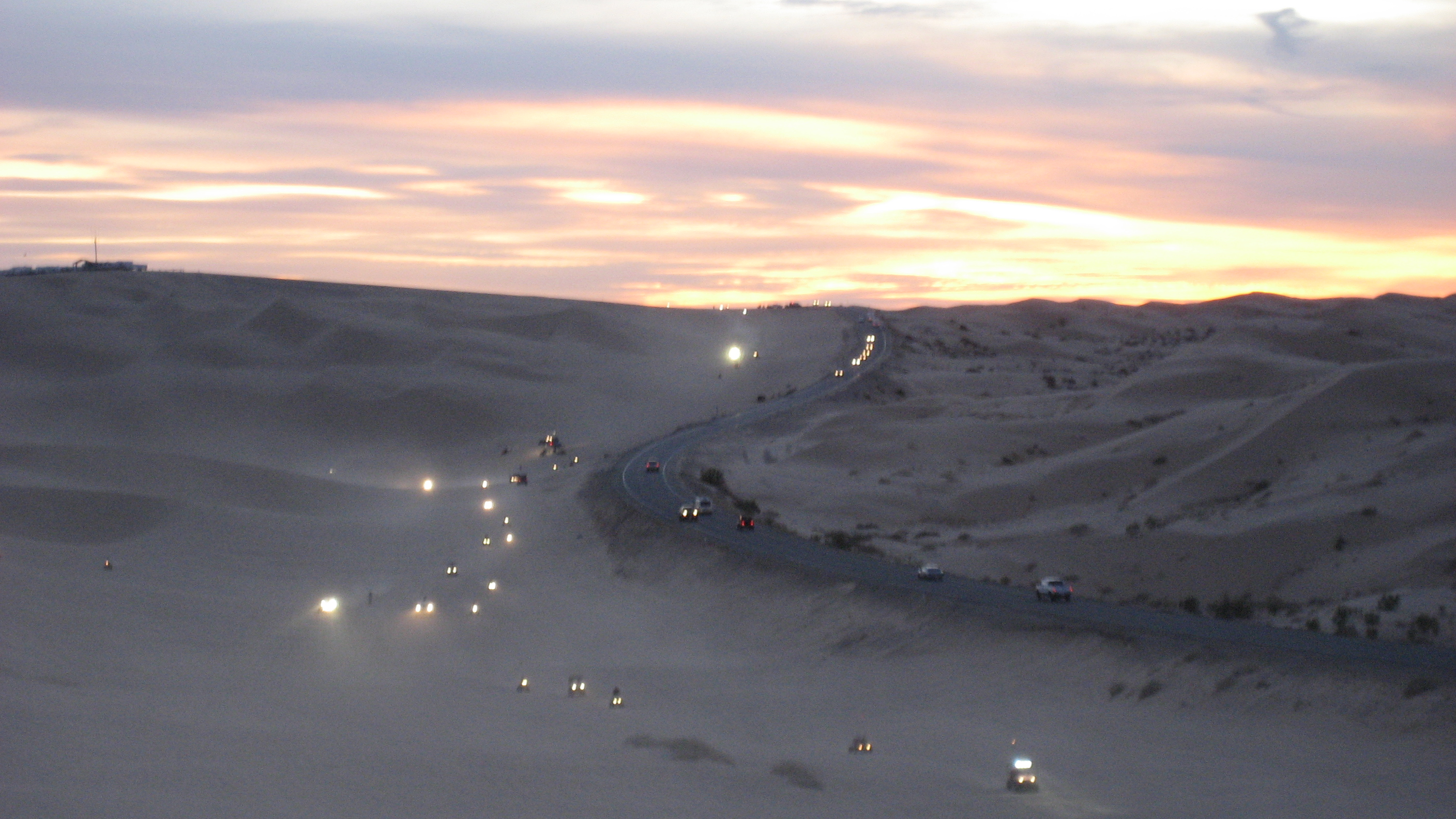 Traffic on The Dunes during President's Day Weekend, 2007. Taken at dusk.